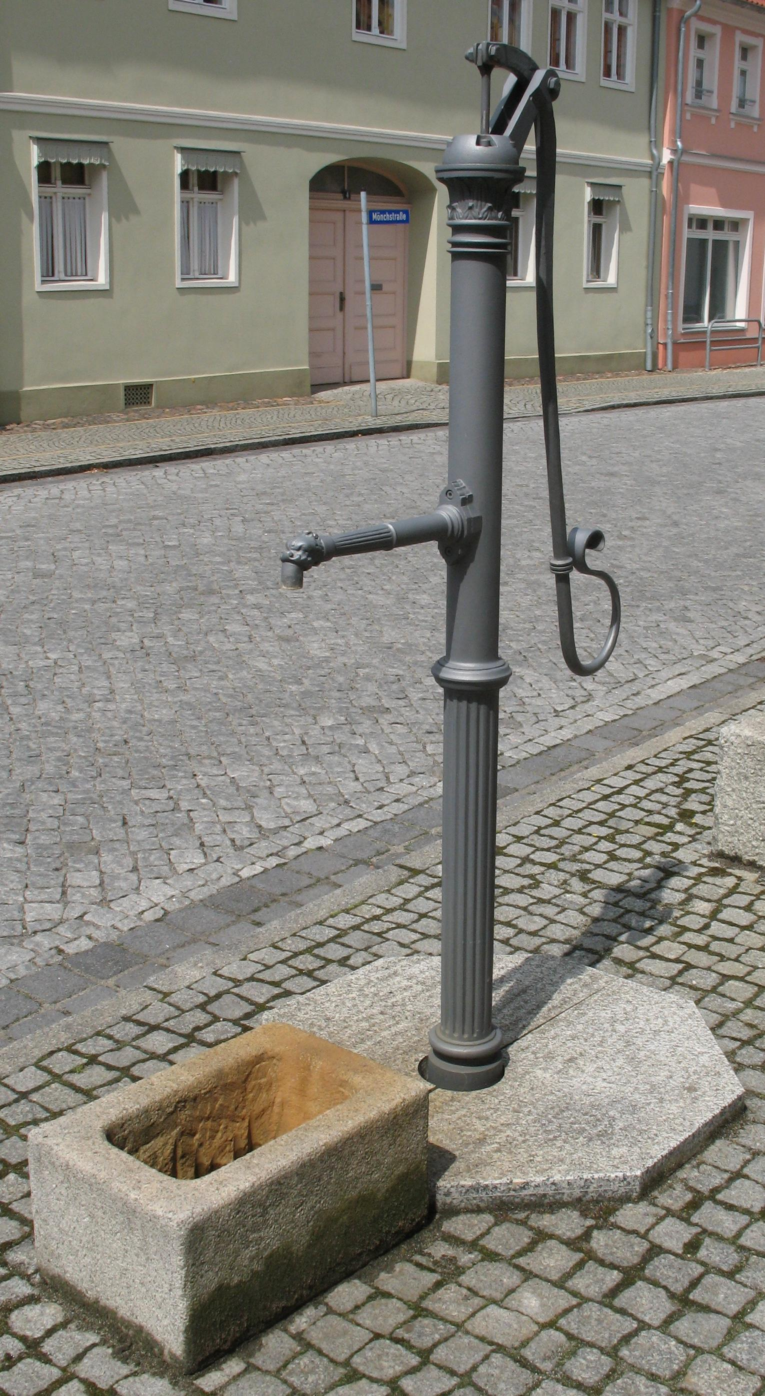 Manual Pump in Herzberg in Brandenburg, Germany